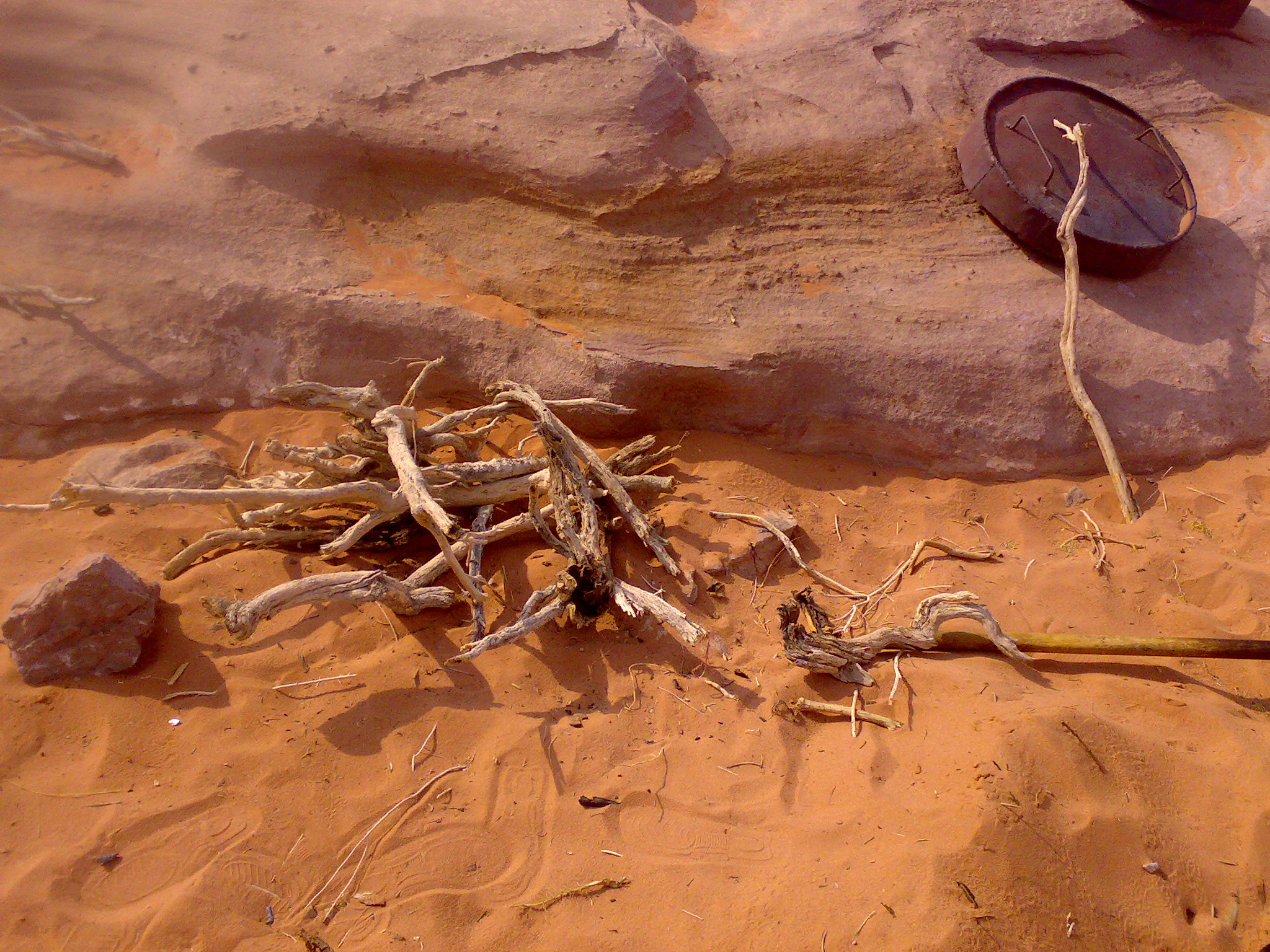 Cooked Zarb (زرب) (Also called Haneeth حنيذ) being prepared. Fresh lamb meat is placed on trays and accompanied by fresh tomatoes and onions and a pot of rice. The trays are inserted onto baking column. The baking column is inserted into a barrel dug underground. The source of heat are the burning coals of dried branches of black saxaul / sacsaoul (Haloxylon ammodendron). out of its underground cooking hole (barrel oven). Cooking time is -+2 hours. Location: Hisma desert (a.k.a Wadi Rum), Jordan تحضير الزرب (الحنيذ) في صحراء حسمى في الأردن: يوضع لحم الخروف الطازج على صواني حديدية مع الطماطم والبصل وقدر من الأرز، وتوضع الصواني على هيكل معدني قبل ادخالها ببرميل تحت الأرض كان قد تم اشعال حطب من الغضى فيه حتى همدت ناره وغدا جمراً. مدة الطبخ بحدود ساعتين. في المتوسط